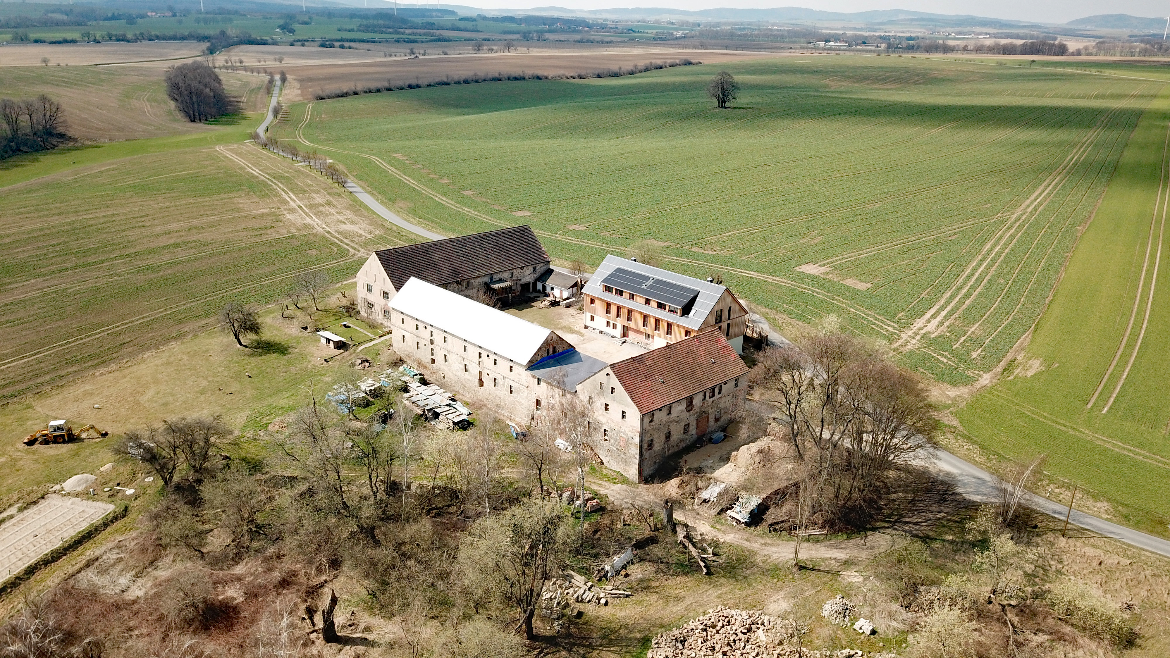 Liebon (Göda, Saxony, Germany) Hornjoserbsce: Powětrowy wobraz Libonja